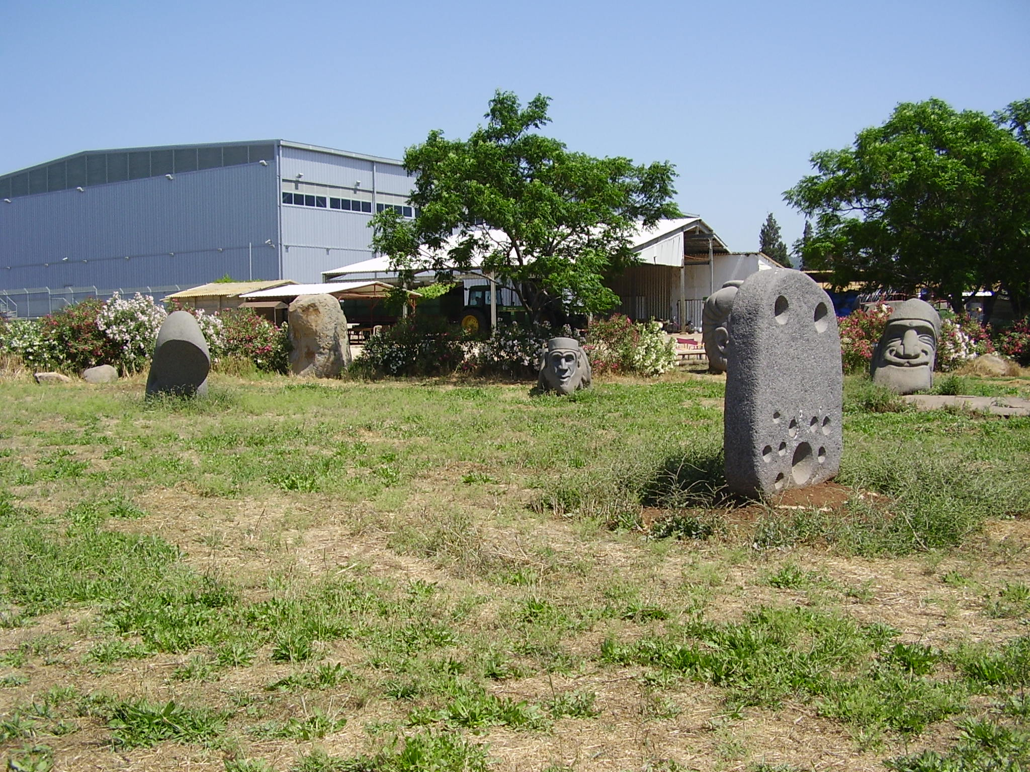 statues in kibbutz ein-carmel